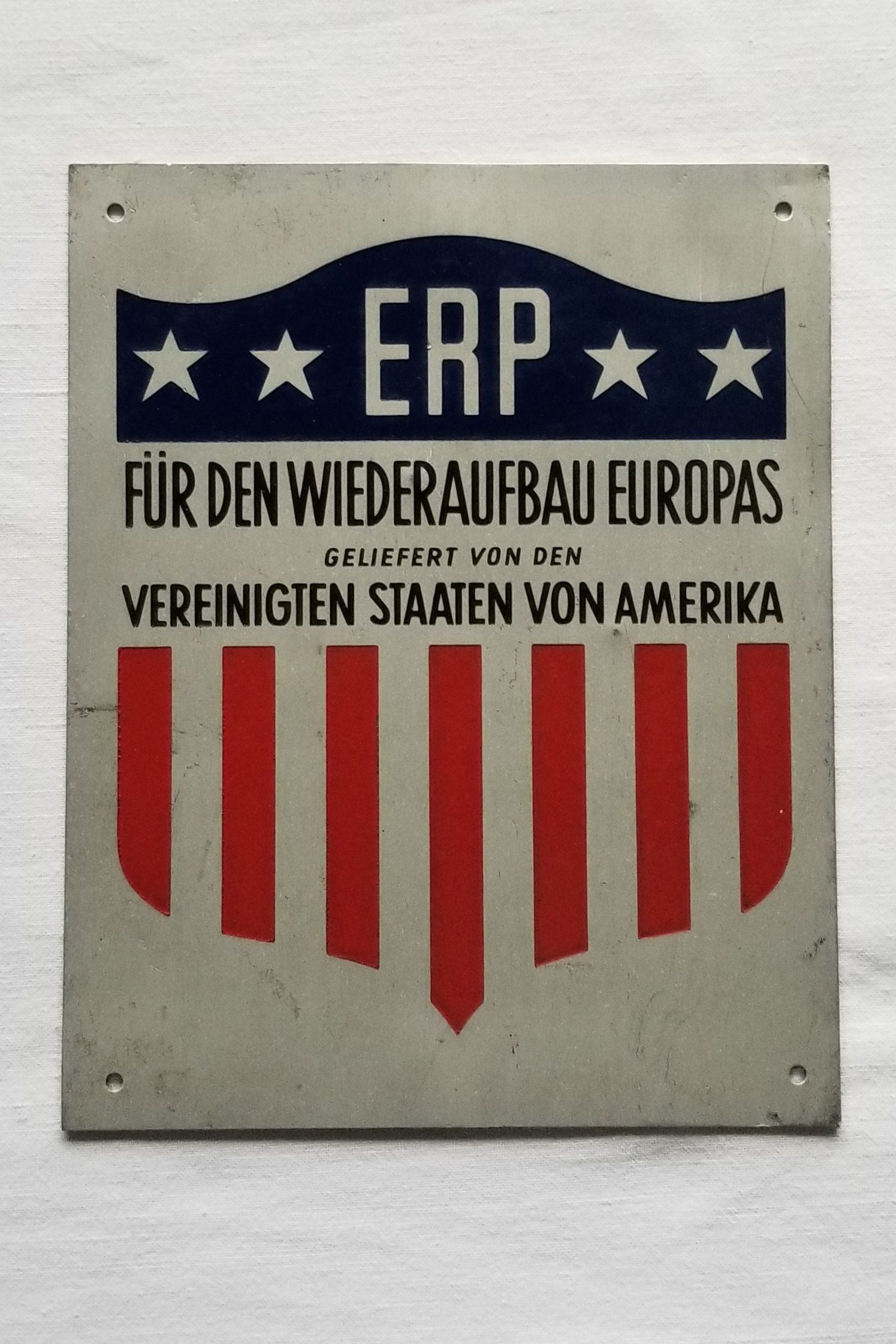 Marshall Plan in Germany ERP European Recovery Program